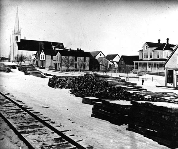 Principale Street parallel to railway tracks showing houses and Saint Francois de Sales Roman Catholic church, in Rogersville (and not Richibucto, as stated in the title).